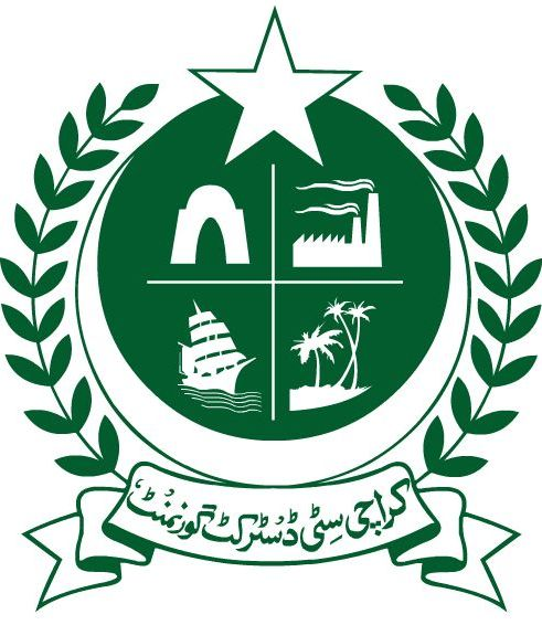 Coats of arms of the Karachi district government.